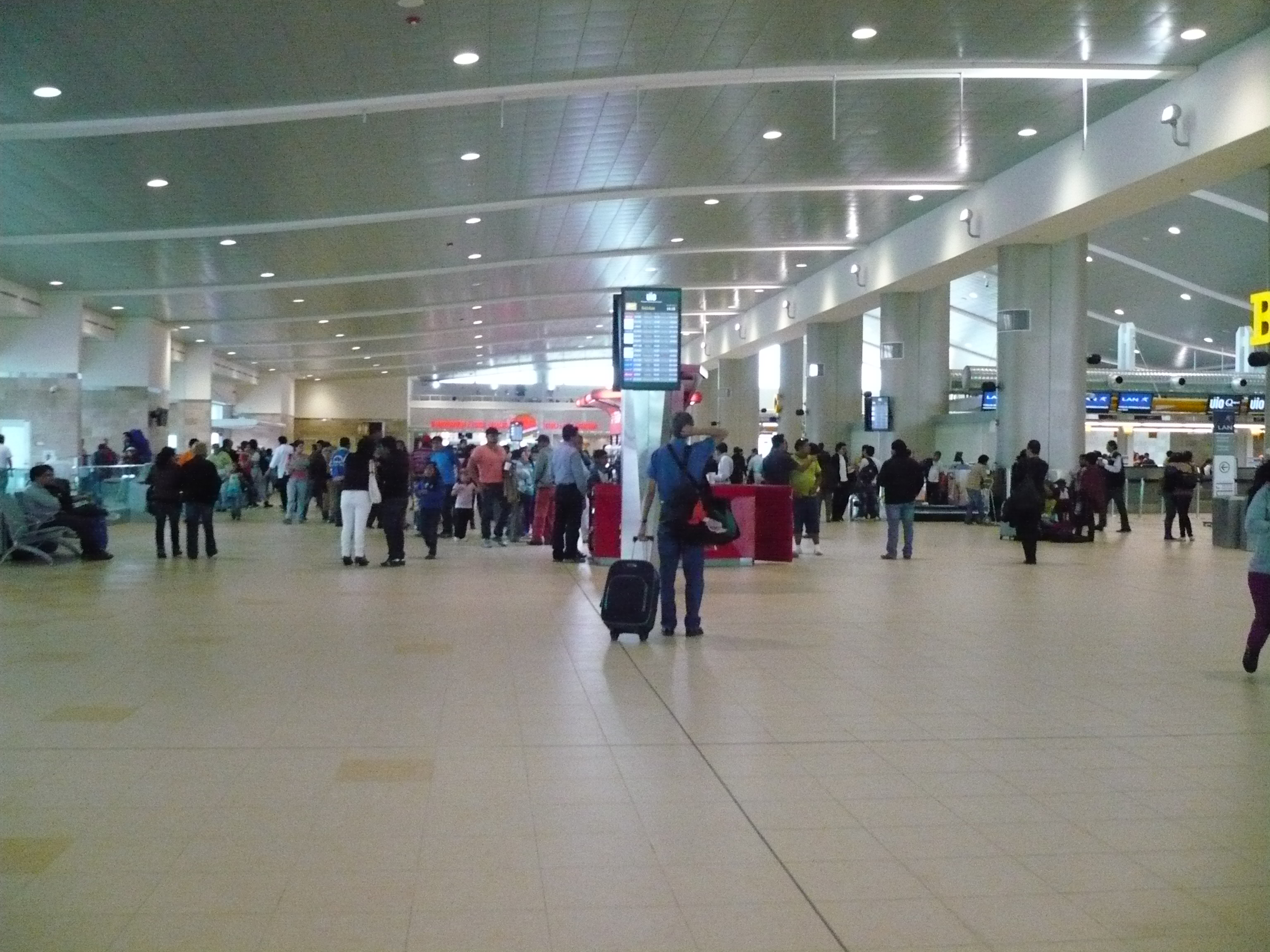 Mariscal Sucre Airport